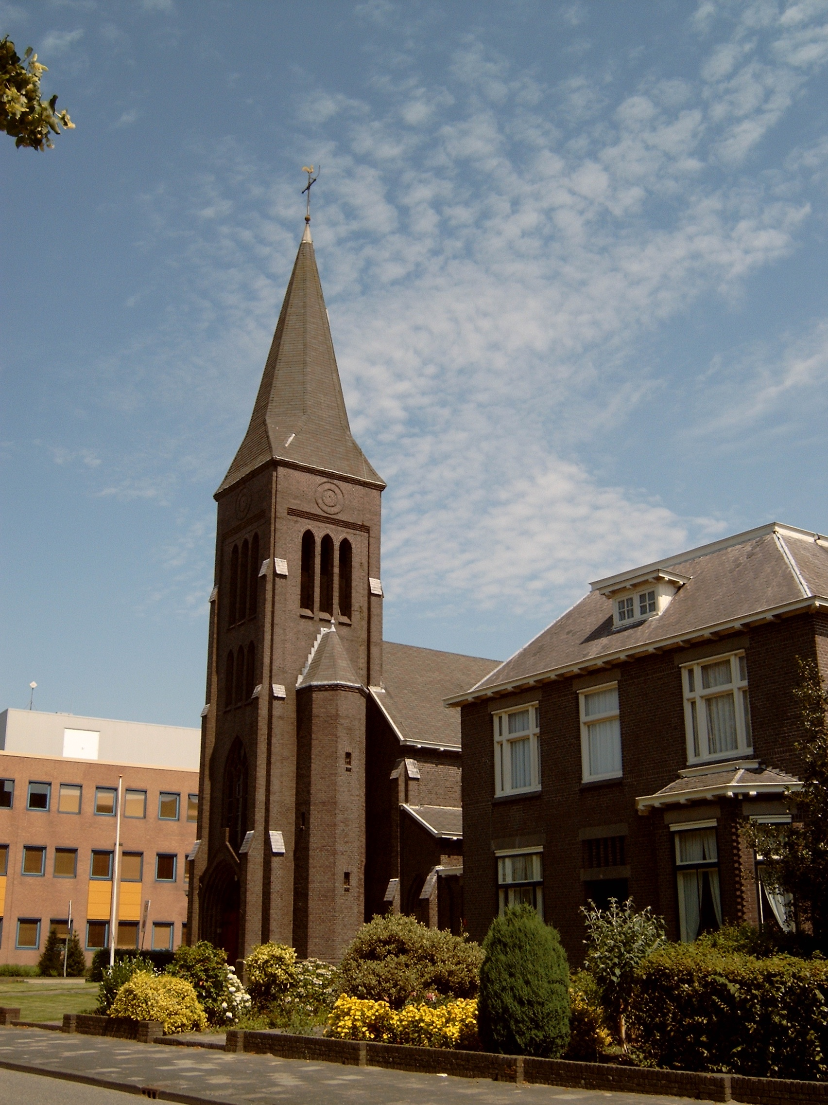 Delfzijl, church